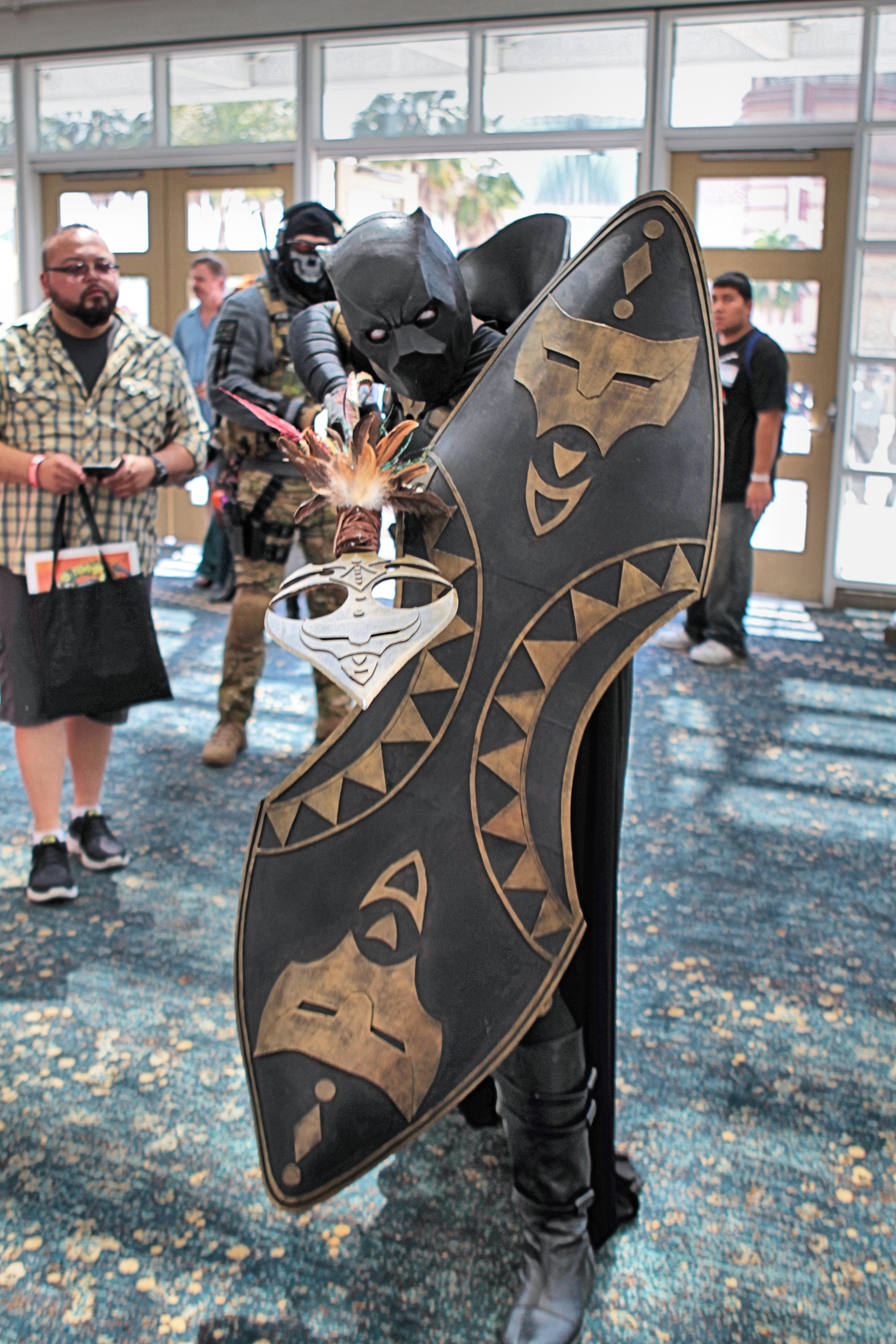 Cosplay at Long Beach Comic Expo 2014.